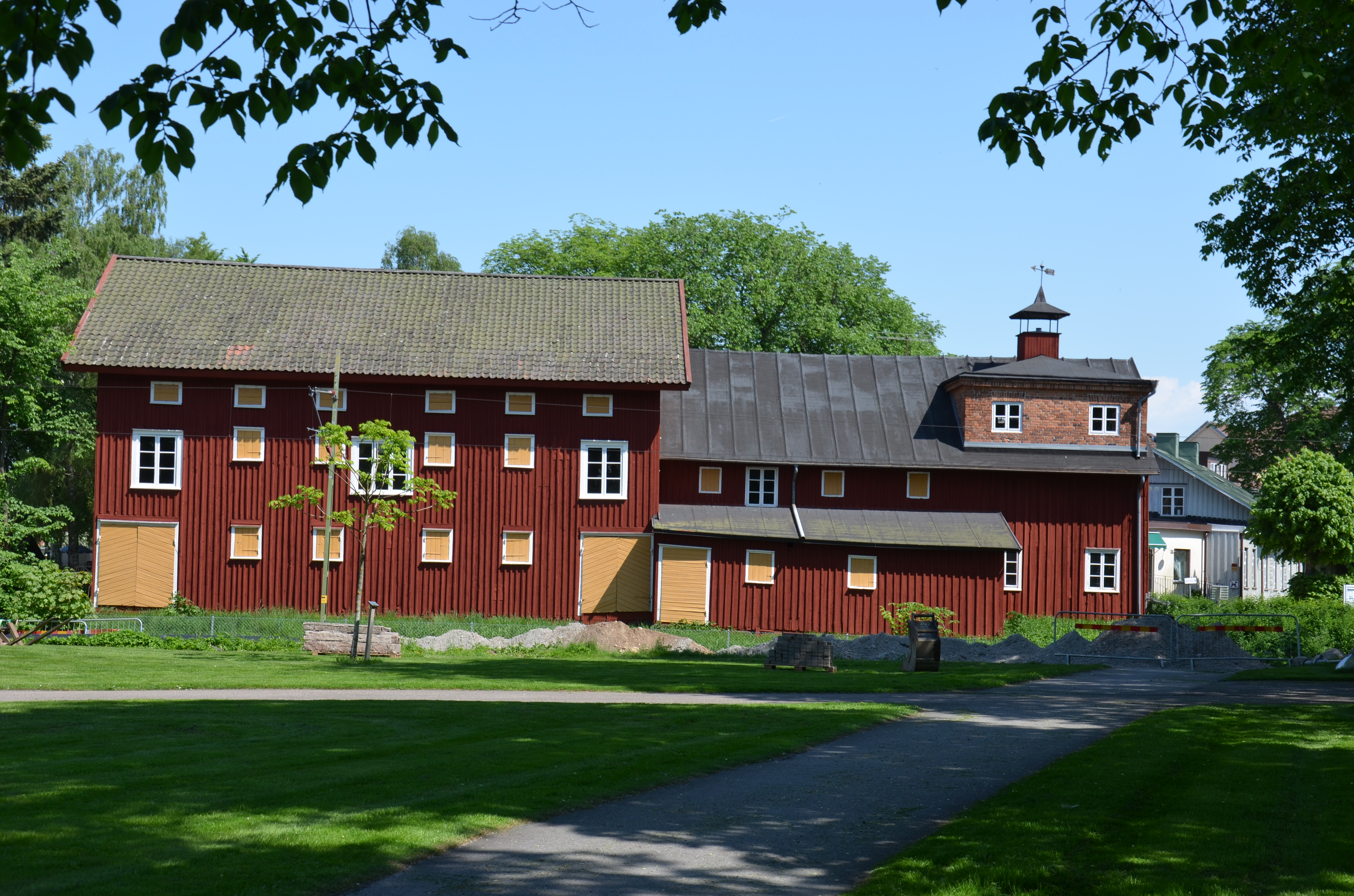 Bengtssonska magasinet, granary in Vara from the 19th Century